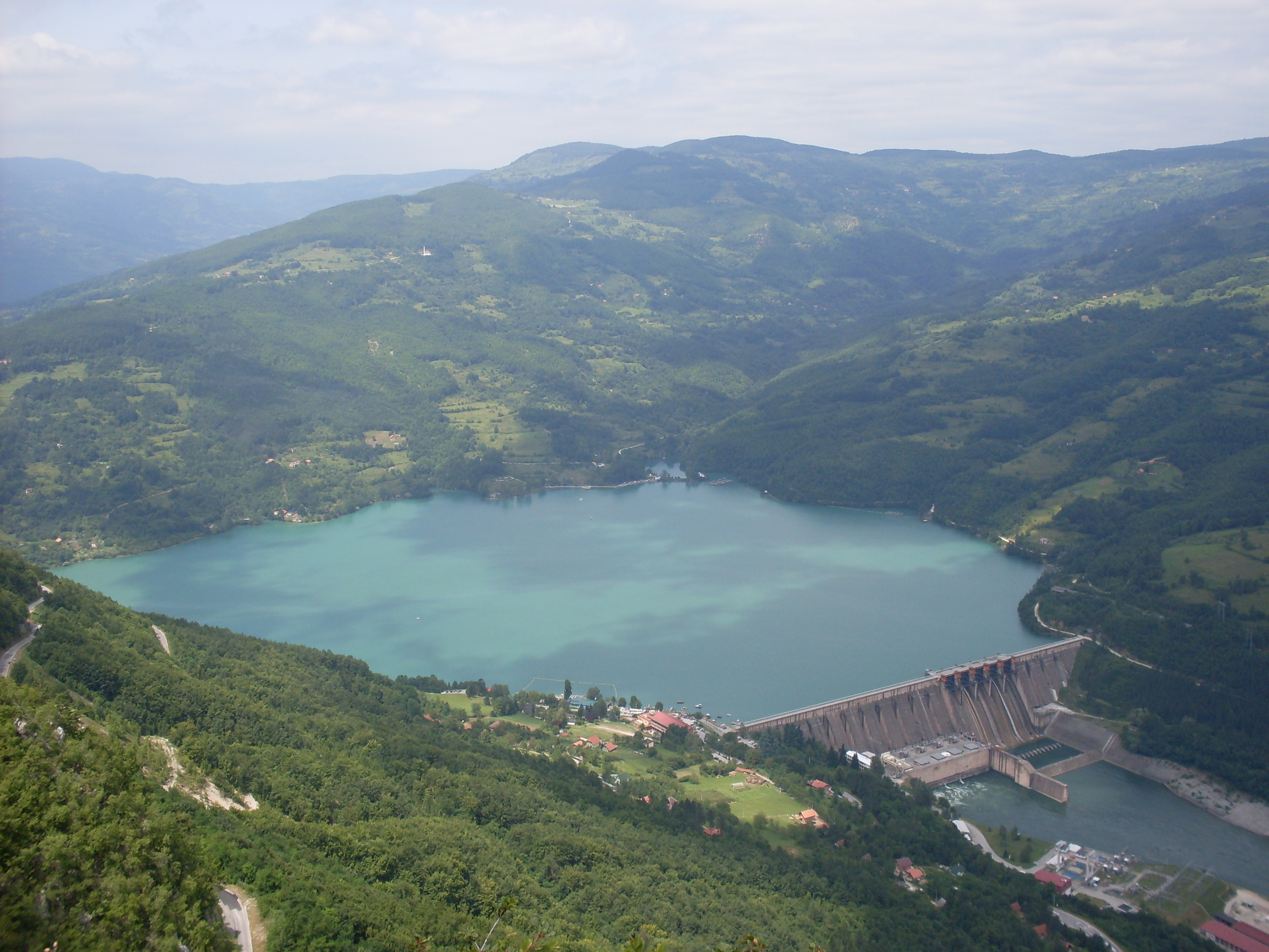 Lake Perućac, Serbia